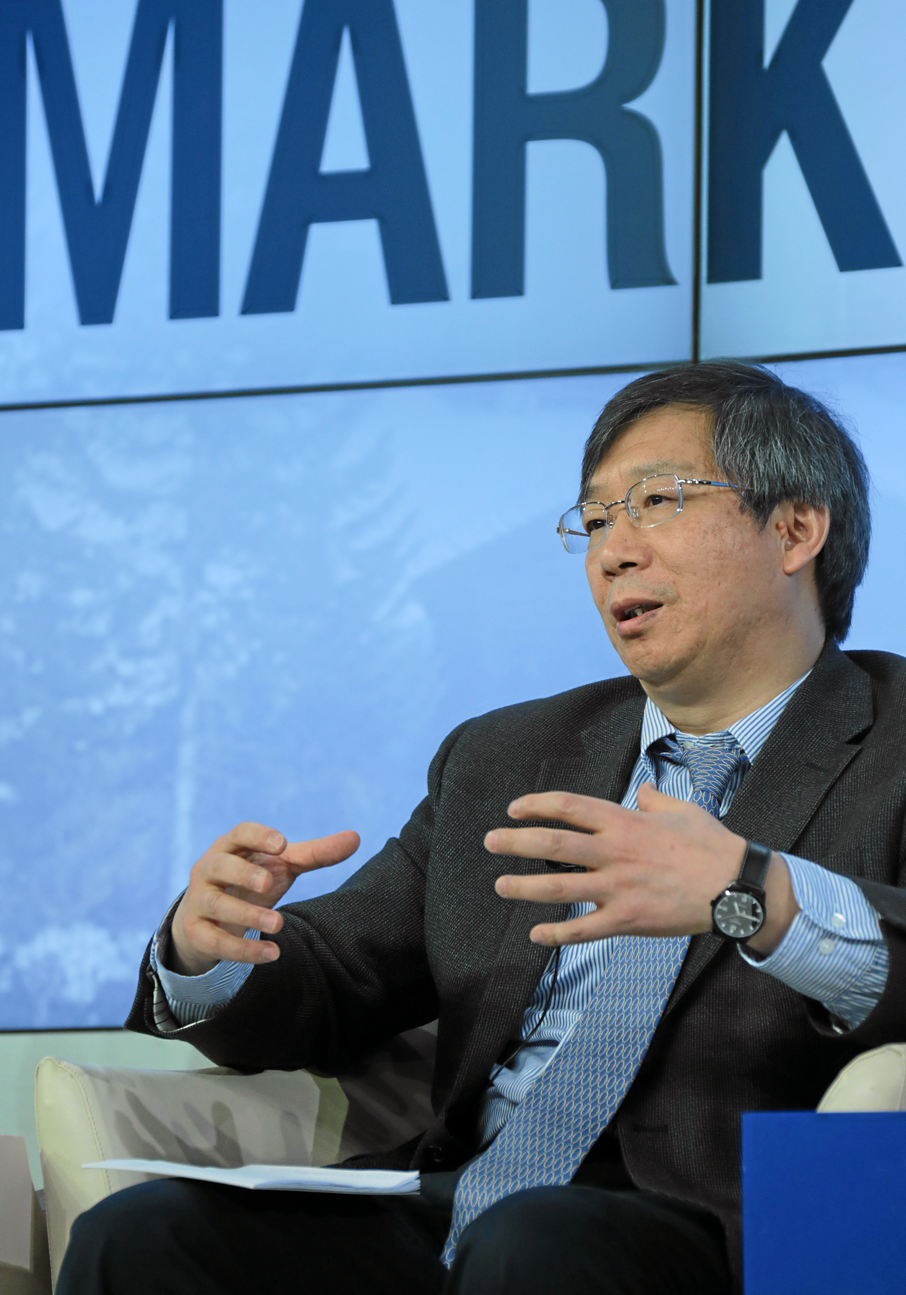 DAVOS/SWITZERLAND, 25JAN13 - Yi Gang, Deputy Governor, People's Bank of China, People's Republic of China speaks during the session 'Emerging Economies at a Crossroads' at the Annual Meeting 2013 of the World Economic Forum in Davos, Switzerland, January 25, 2013. . . Copyright by World Economic Forum. . Remy Steinegger